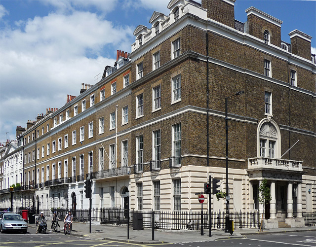 34-48 Portland Place